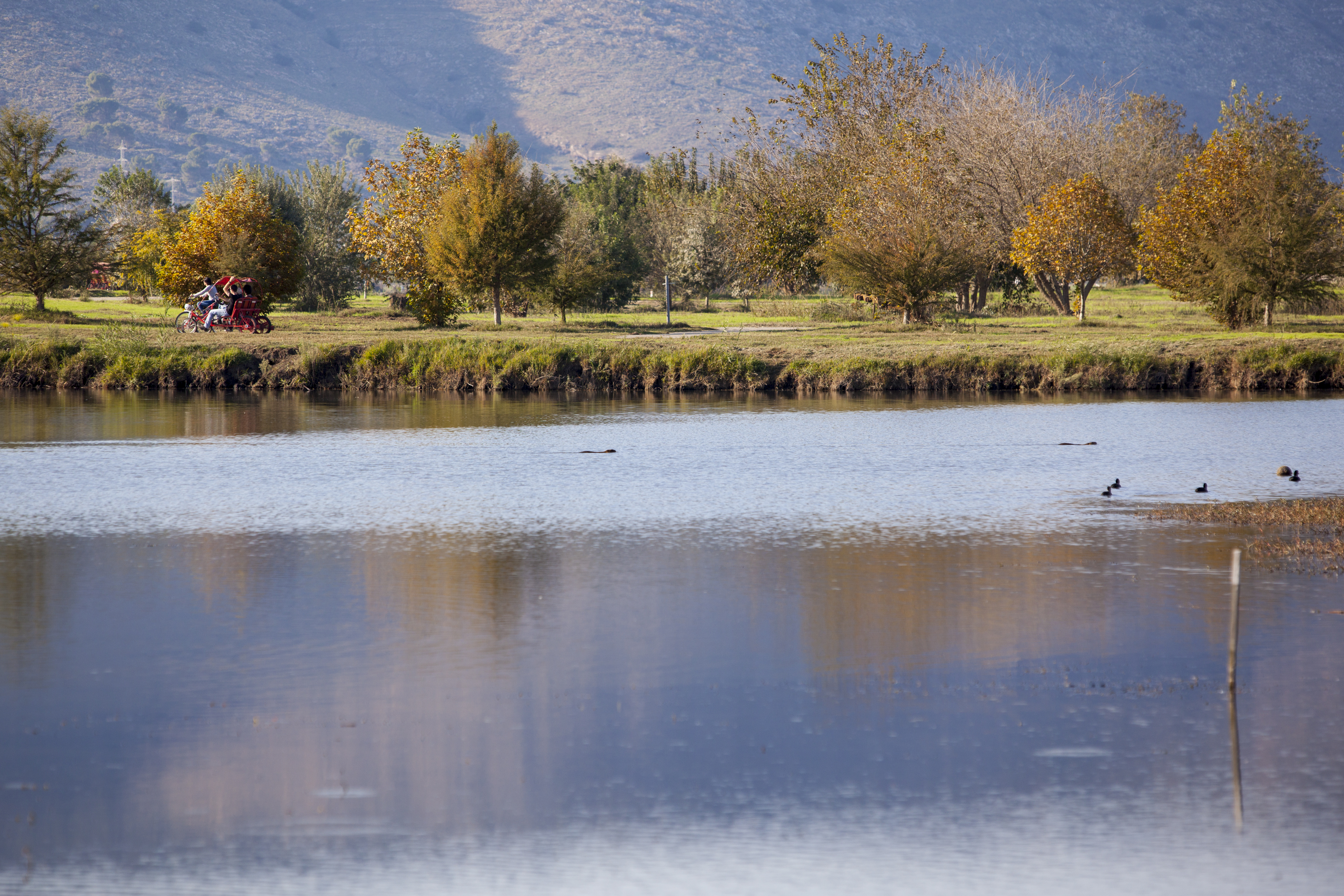 The picture shows a walking path around the Hula, National Park, Galilee region and also some cranes in the Hula lake. Photo taken by Itamar Grinberg for the Israeli Ministry of Tourism. Credit attribution requested Galilee